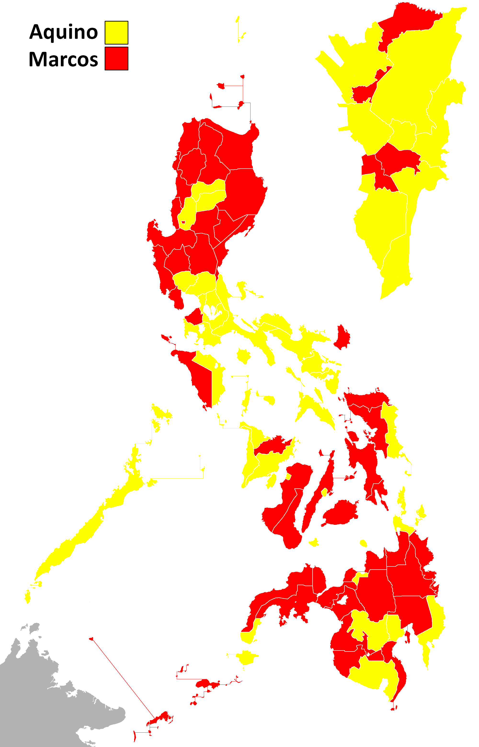 Results of the Philippine presidential election: shades refer to which candidate won a plurality in each province.